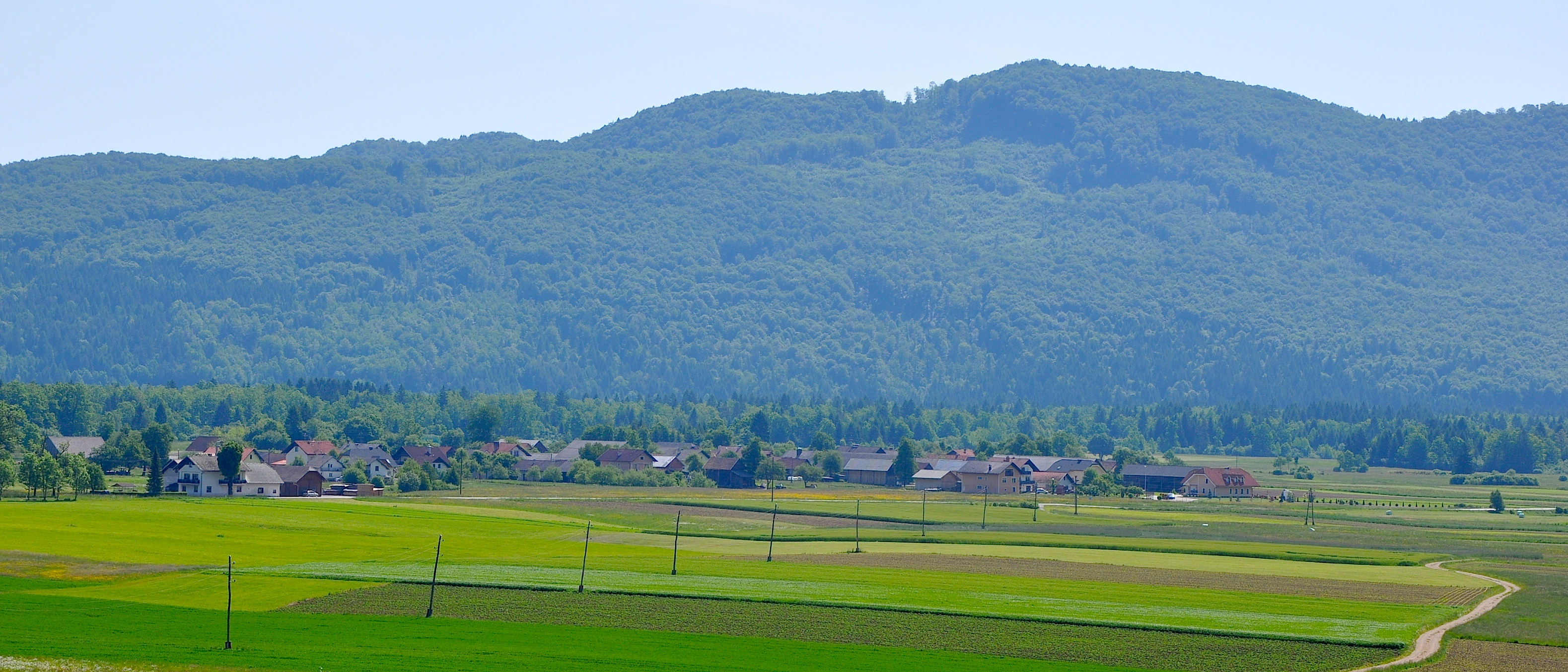 Bruhanja vas, village in Slovenia